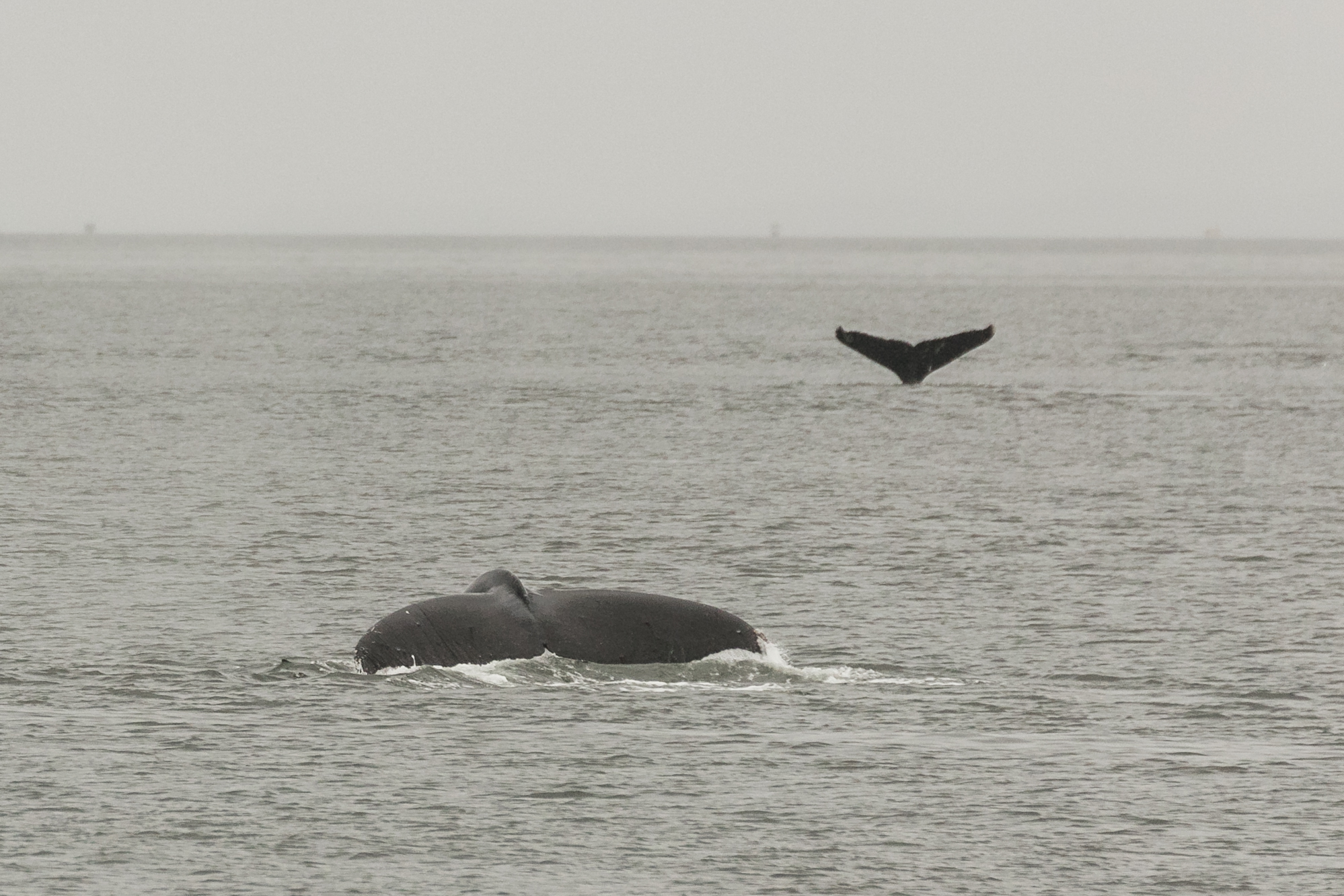 Humpback whales watching (Megaptera novaeangliae), Juneau, Alaska, United States